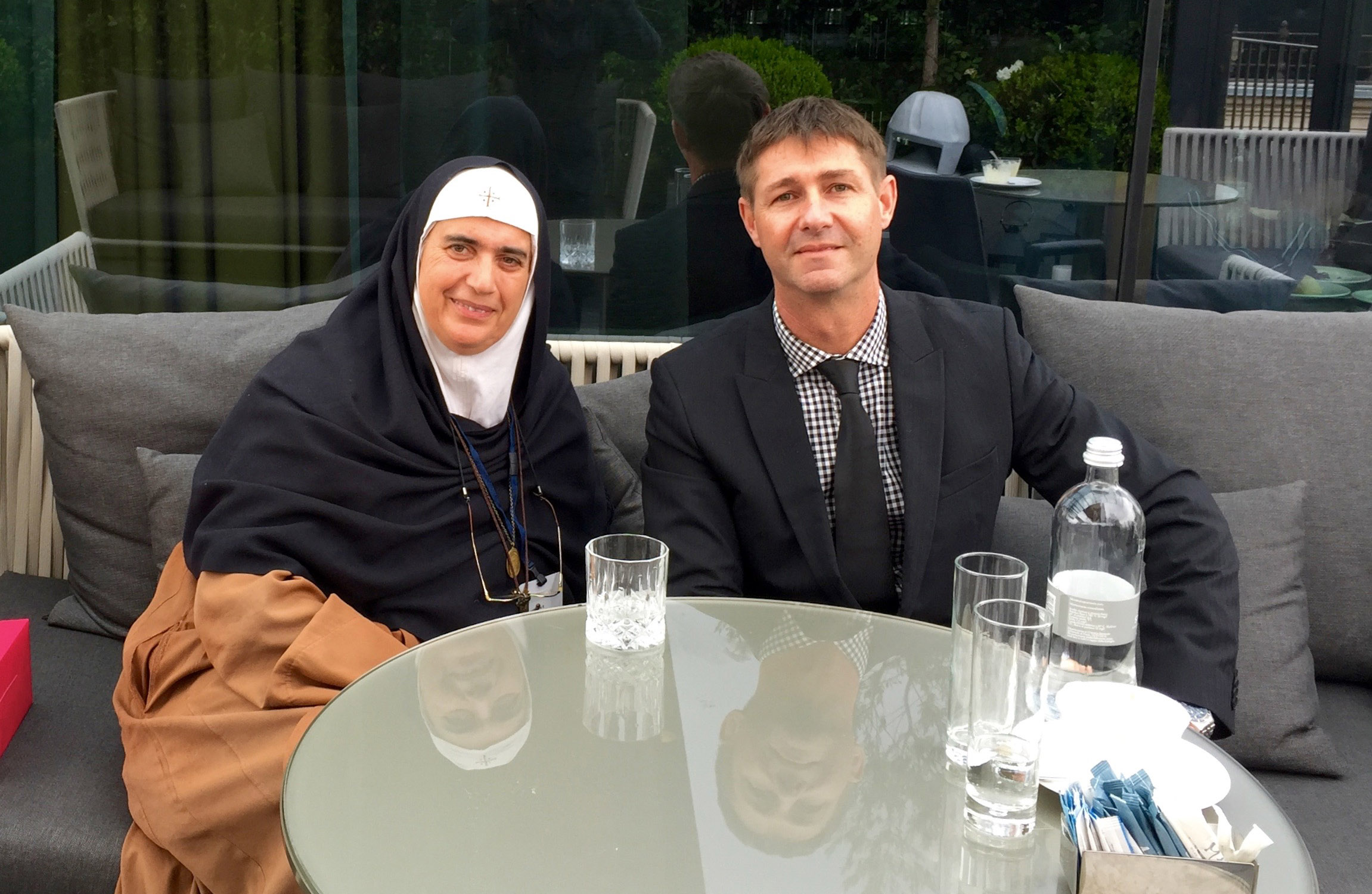 Agnes Mariam de la Croix, the Mother Superior of Syria, is interviewed by Grant Schreiber of Real Leaders magazine at the Pilosio Building Peace Award, Milan, 2015.